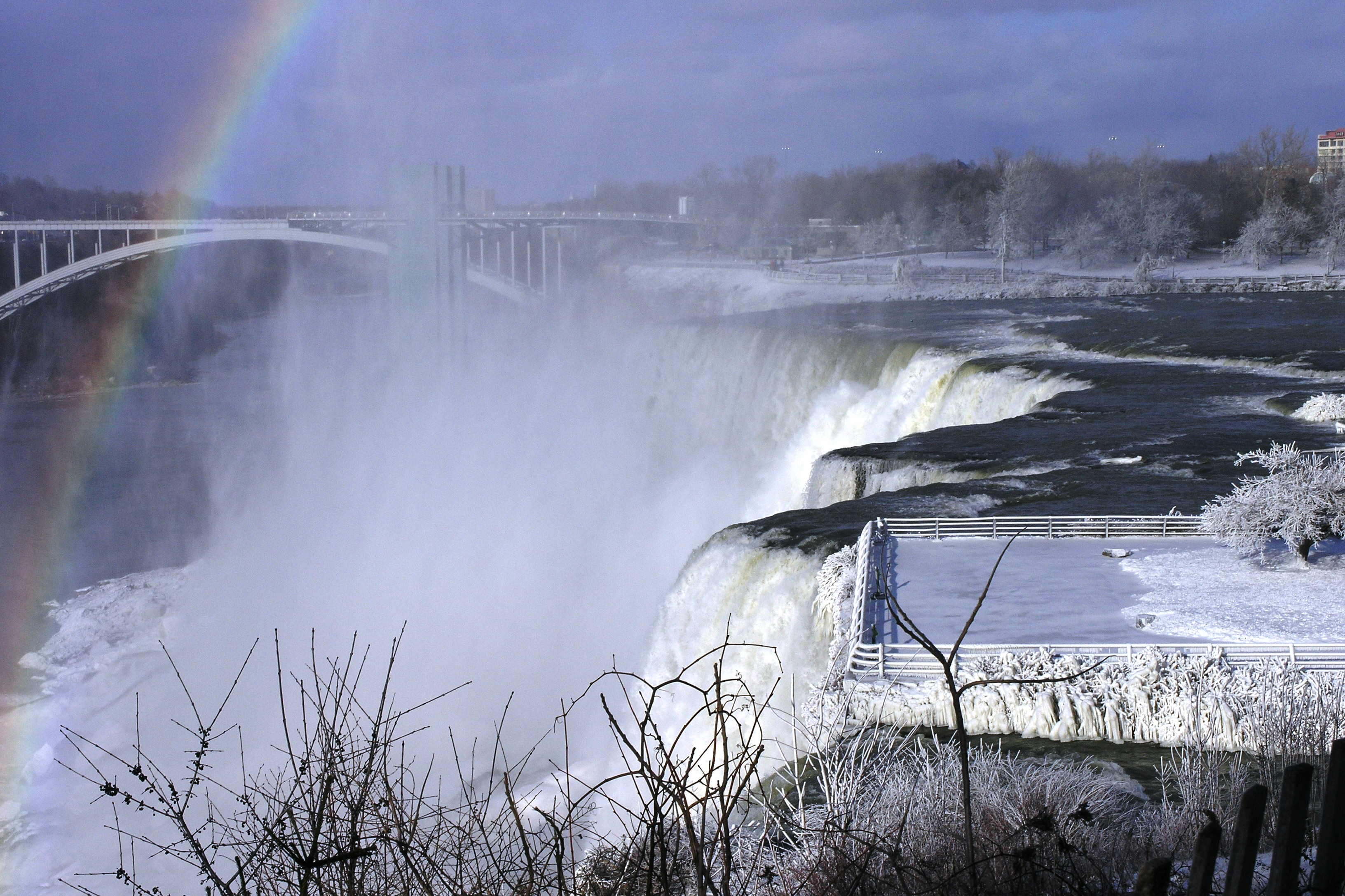 Taken by Daniel Mayer in late February 2006.